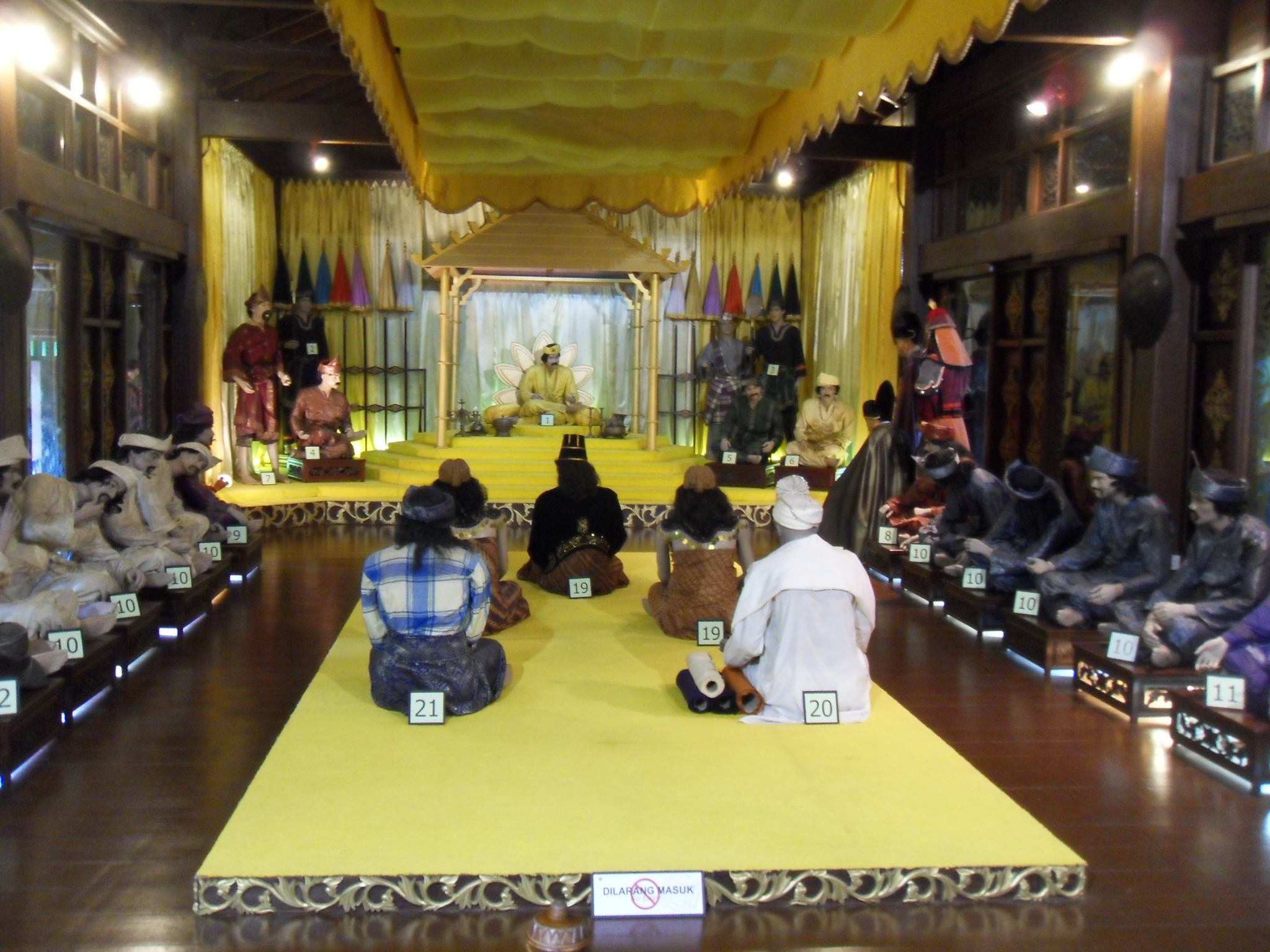 Melaka Sultanate Palace Museum, Melaka City, Central Melaka, Melaka, MalaysiaBahasa Melayu: Istana Kesultanan Melaka, Bandaraya Melaka, Melaka Tengah, Melaka, Malaysia